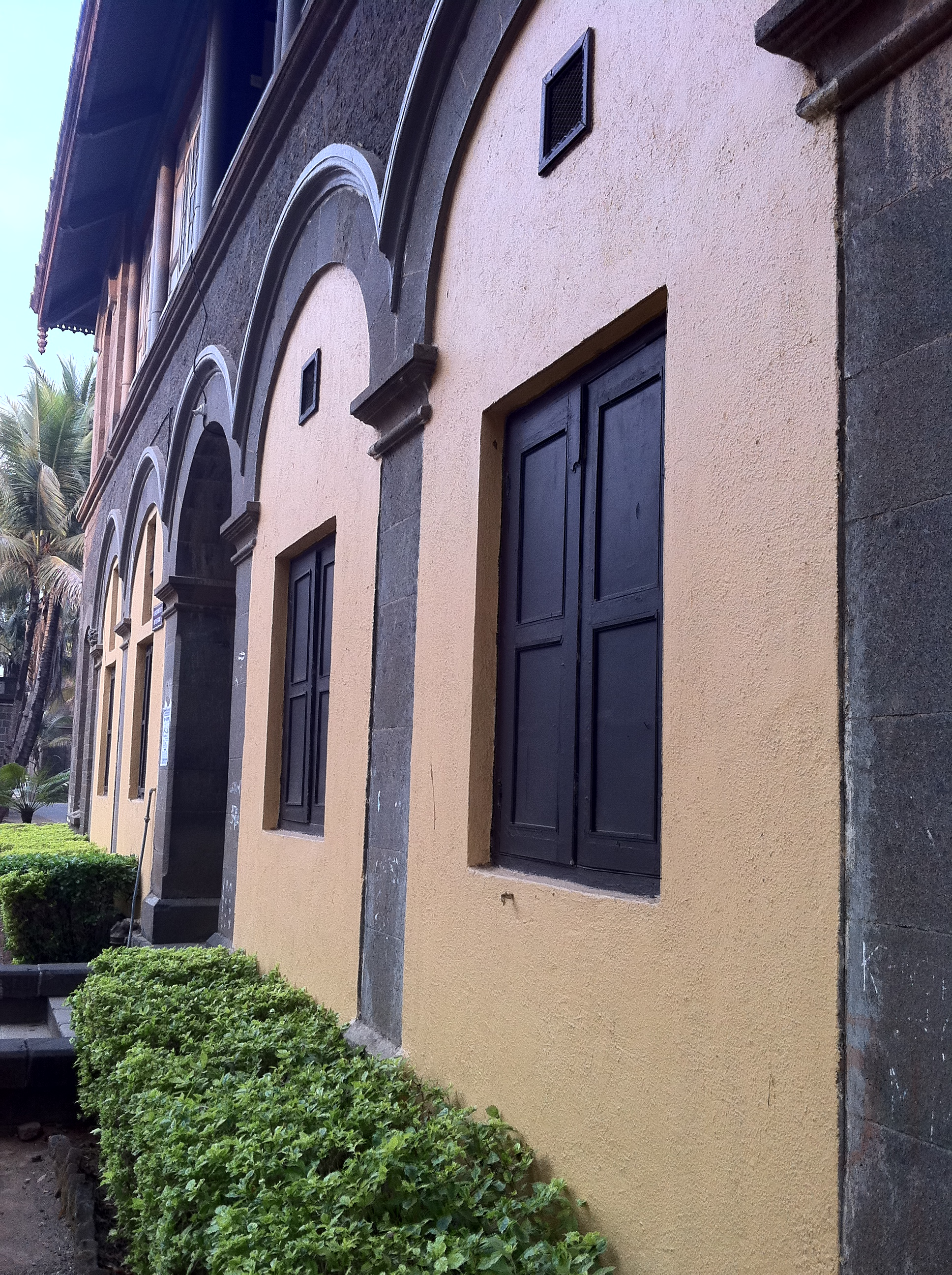 Fergusson College Staff Offices1